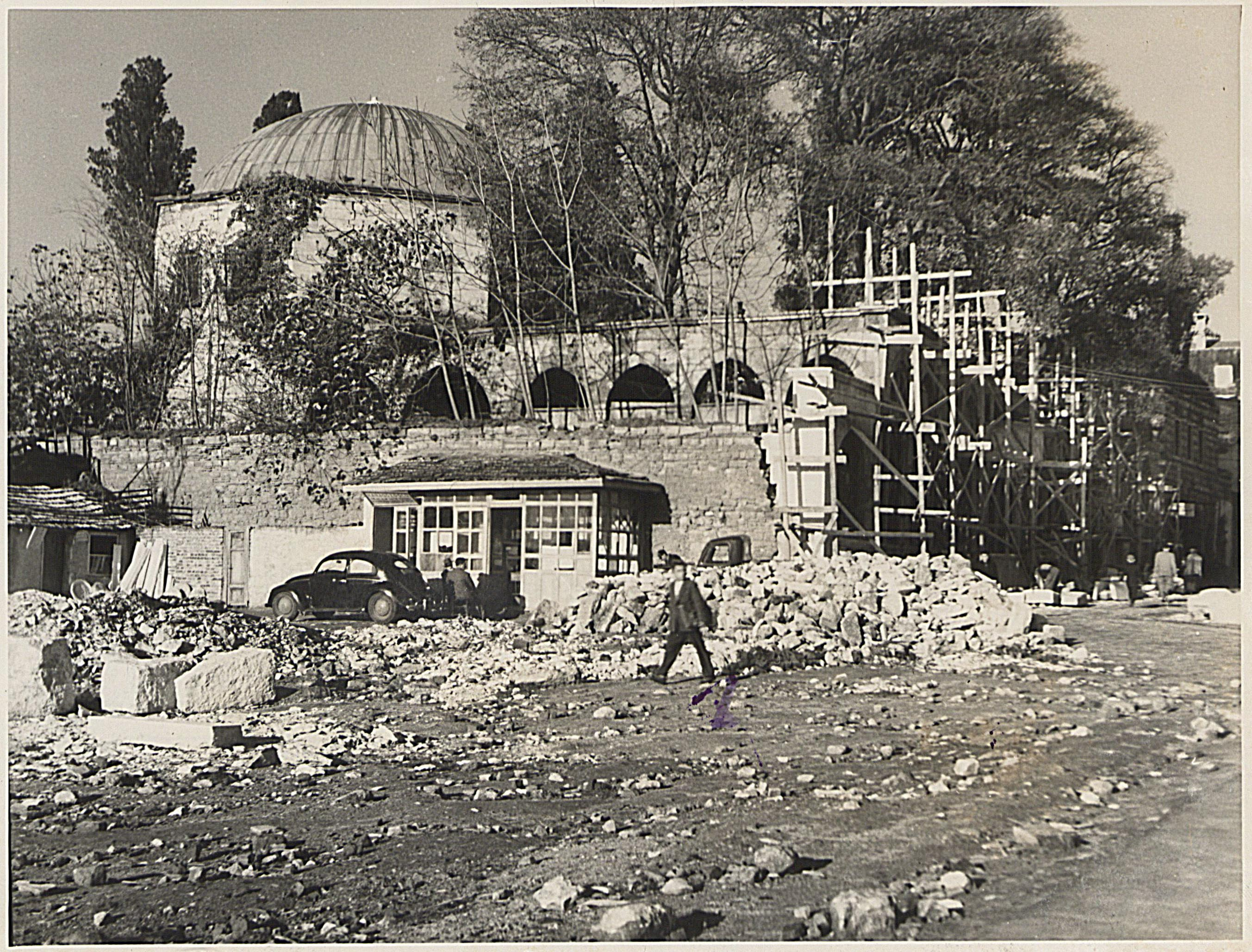 Amcazade Hüseyin Paşa Madrasah restoration (İstanbul) Photo: Halûk Konyalı SALT Research, Ali Saim Ülgen Archive Amcazade Hüseyin Paşa Medresesi onarımı (İstanbul) Fotoğraf: Halûk Konyalı SALT Araştırma, Ali Saim Ülgen Arşivi